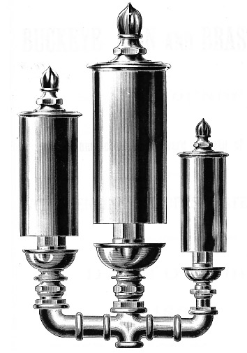 From 1883 trade catalog